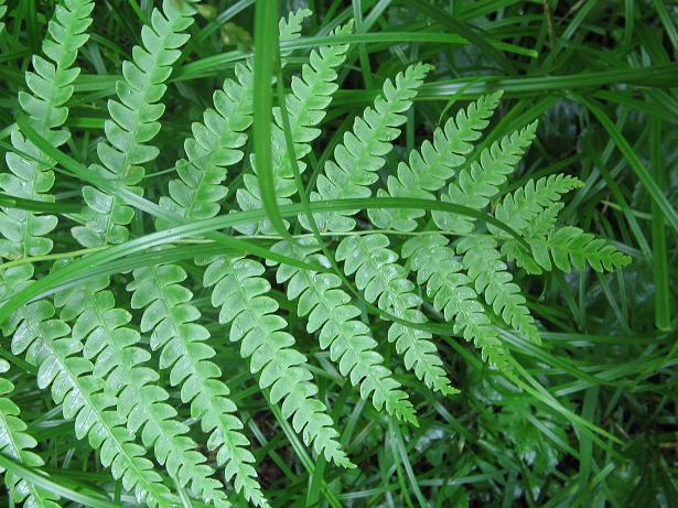 This is an image of a Cinnamon fern in the Smokies, North Carolina.